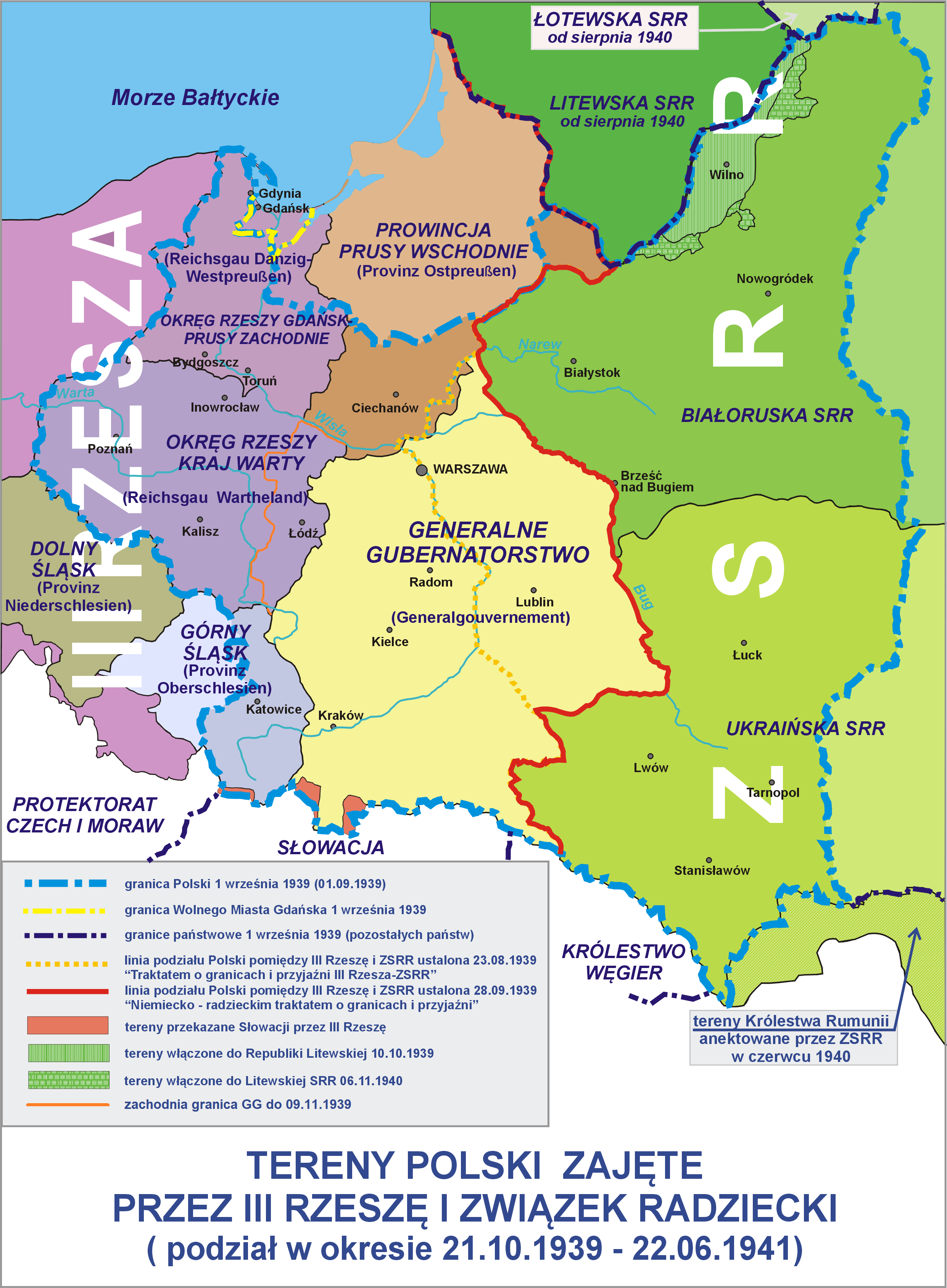 Poland occupied by Nazi Germany (Third Reich) and the USSR (21/10/1939-22/06/1941) (Polish)